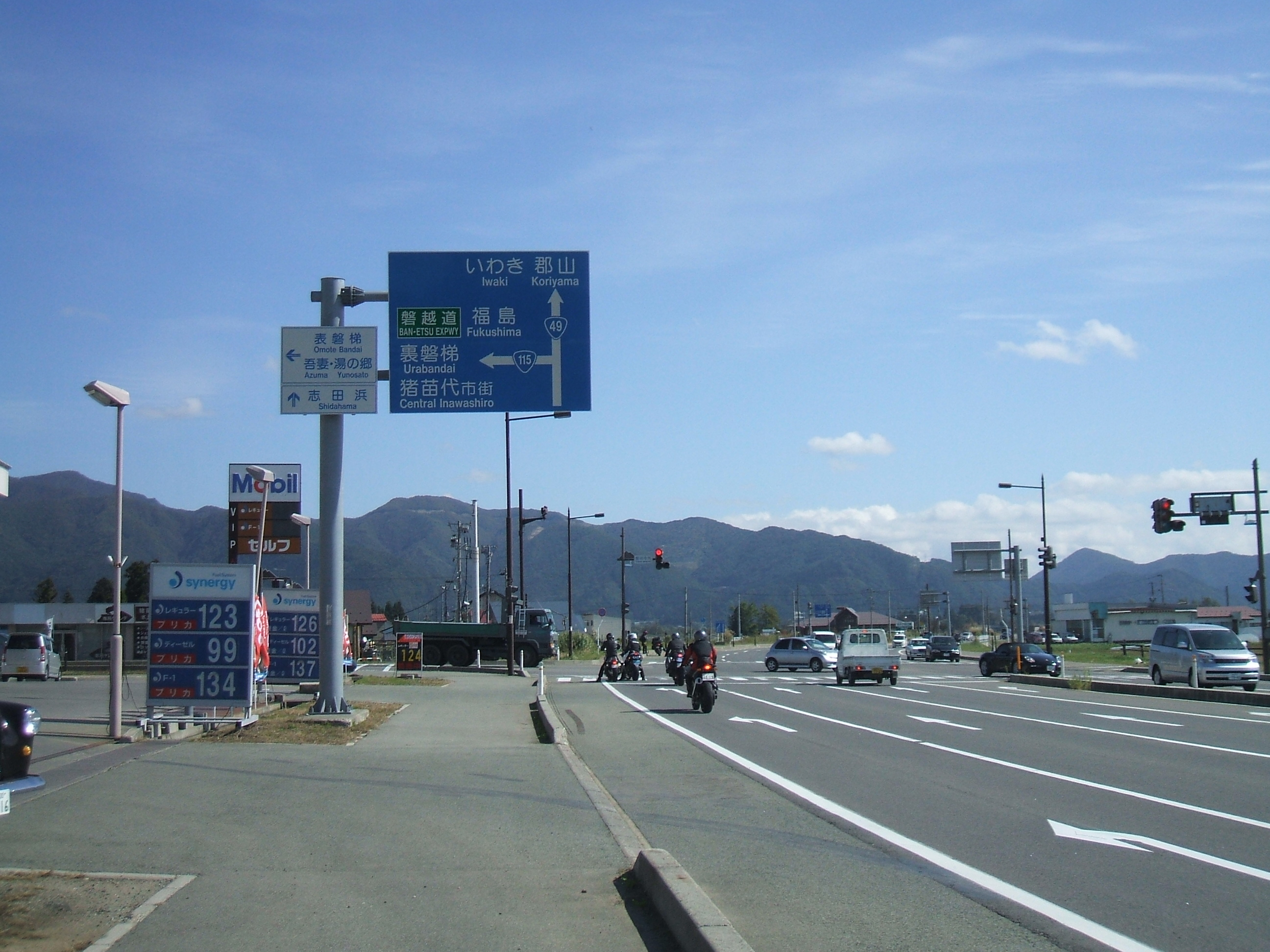 Landscape of crossing of Japanese national road Route49 and Route 115. At Katada, Inawashiro, Fukushima.